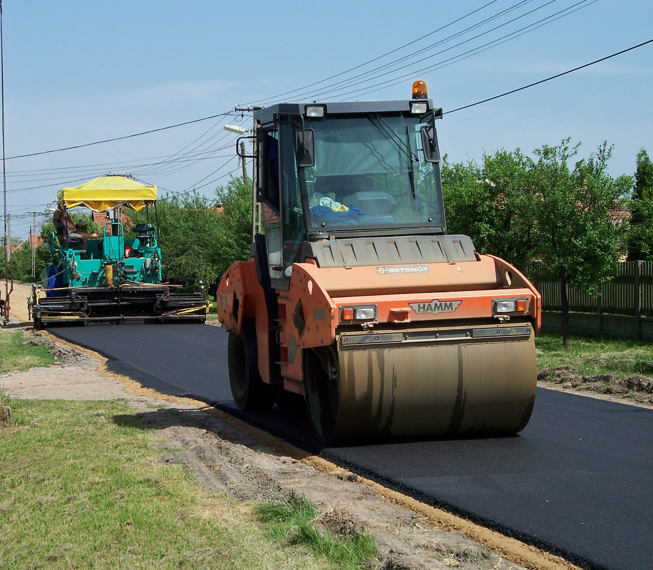 Road building in Békés, Hungary.